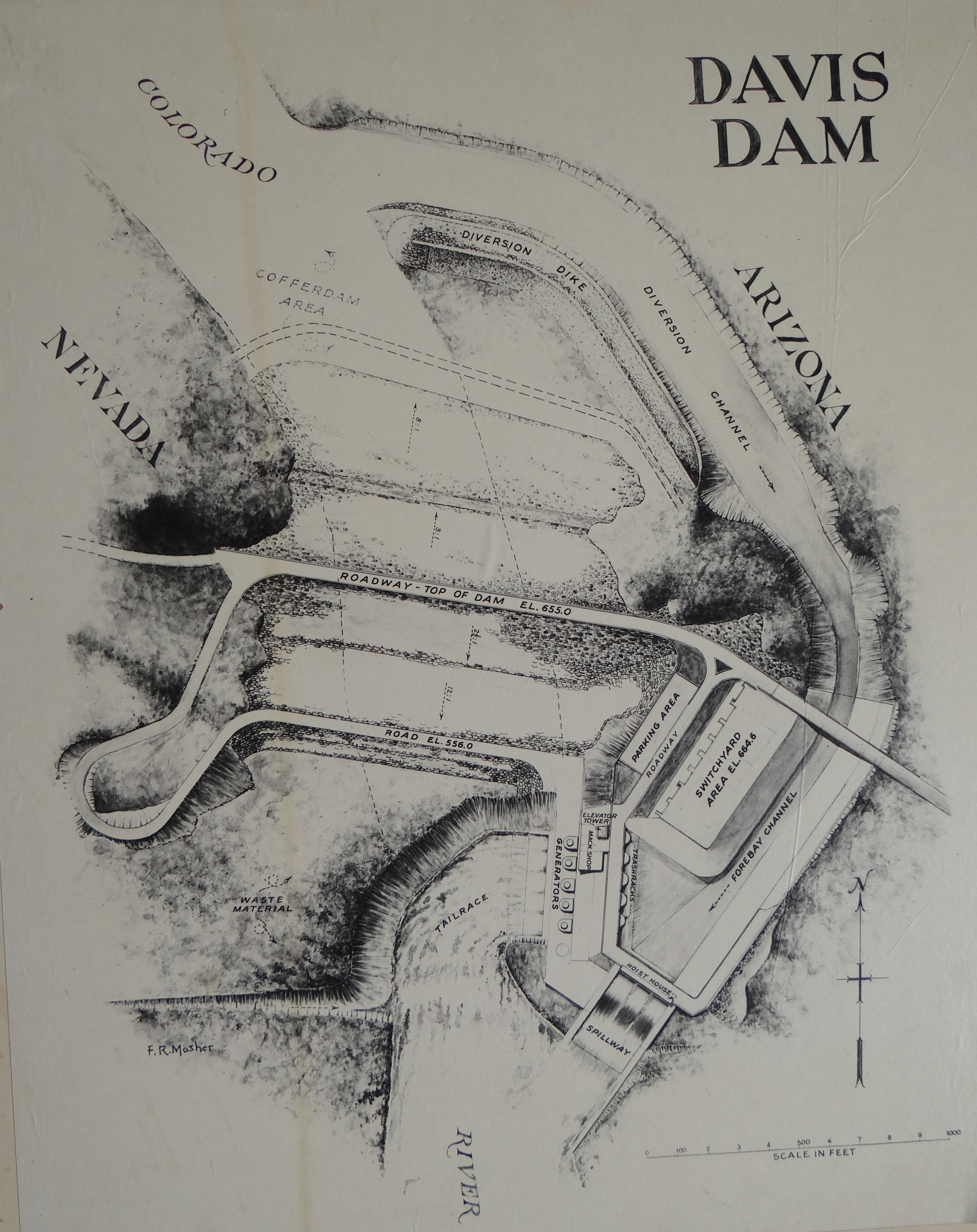 Original engineering drawings for Davis Dam created by the Bureau of Reclamation, Boulder City, Nevada